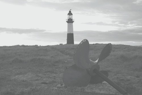 Pembroke lighthouse, west of Stanley, Falkland Islands